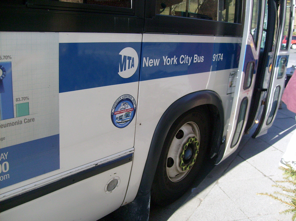 Quality Control Sticker of a Bx33 RTS Nova #9174 from West Farms Depot